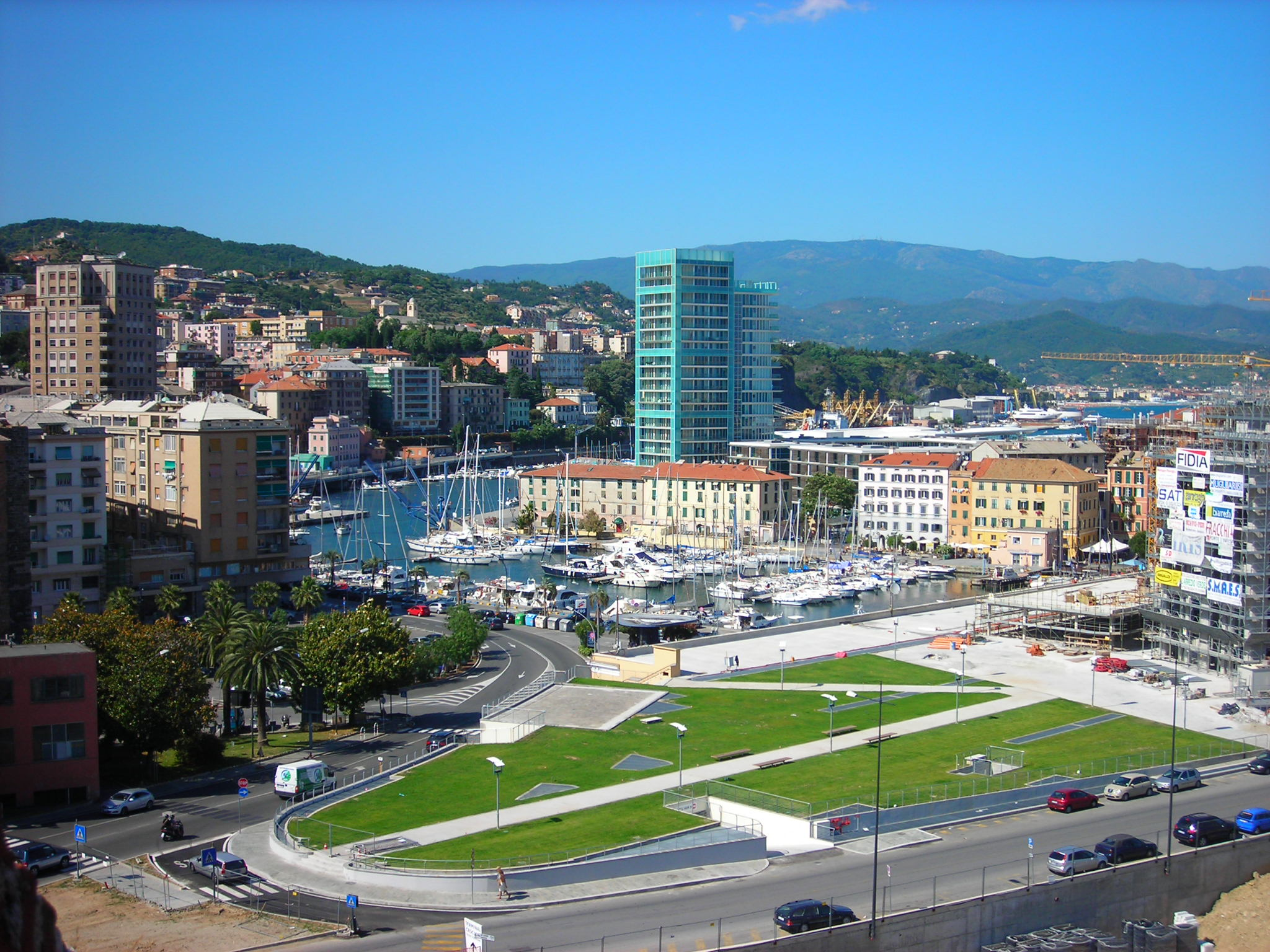 Savona harbour